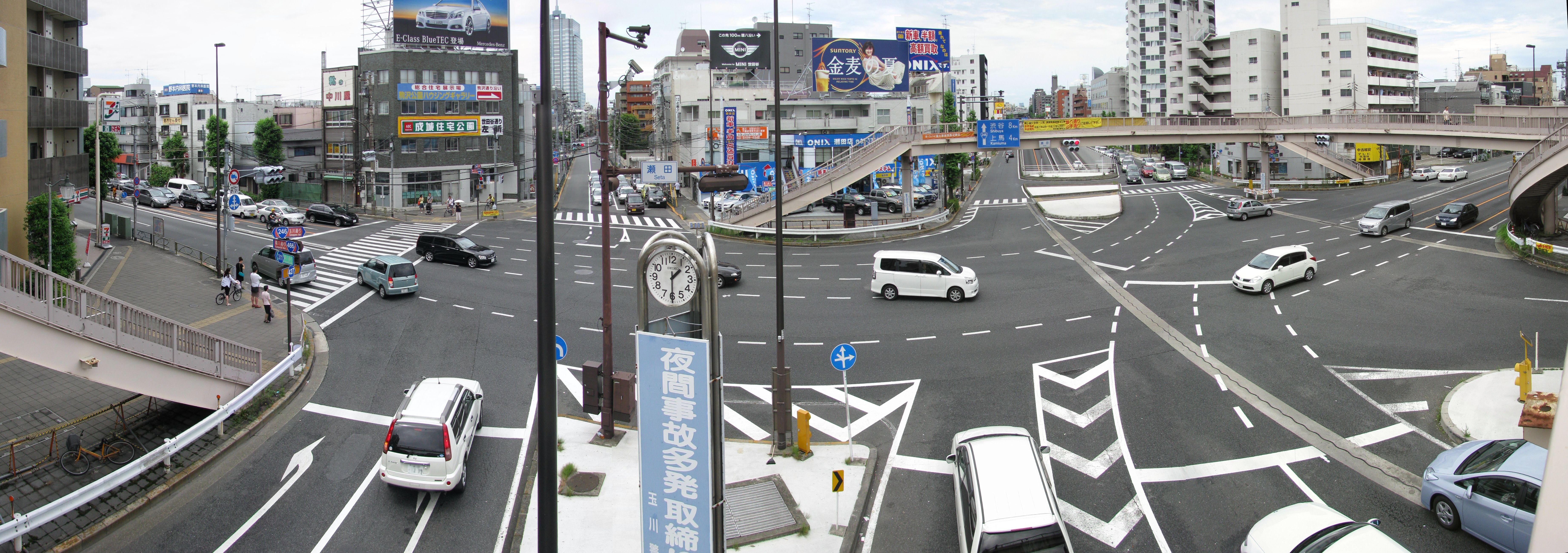 The Seta intersection is roads crossing of National Route 246, National Route 466, Tokyo Prefecture Route 311, and Tokyo Prefecture Route 427. This place is Setagaya, Tokyo, Japan.